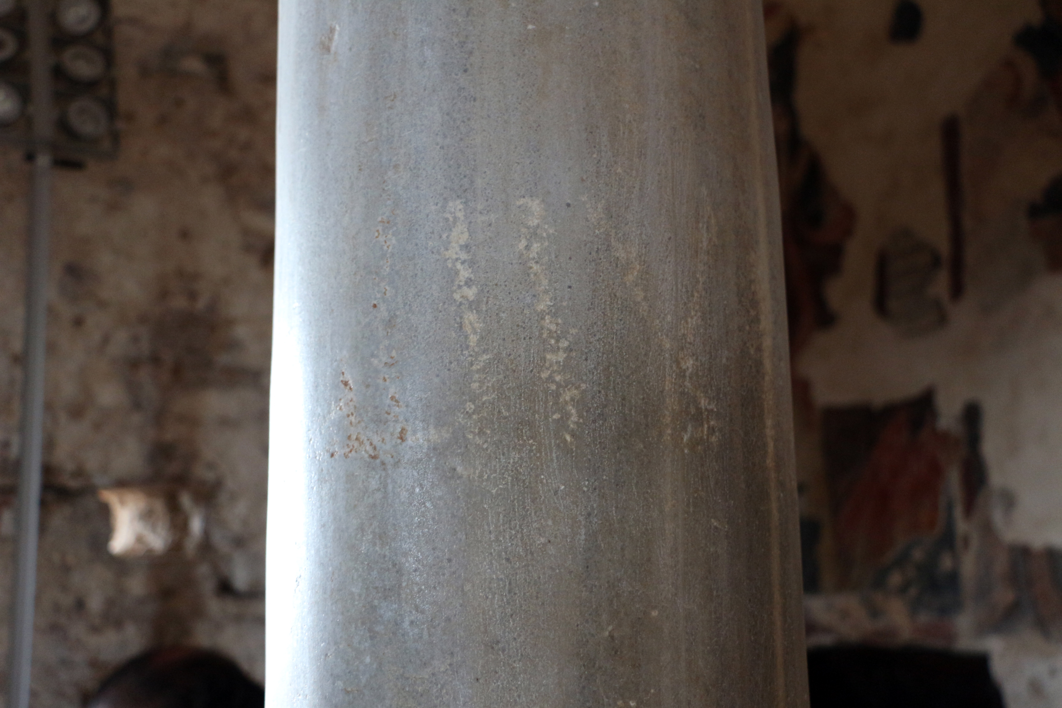 Cattolica di Stilo